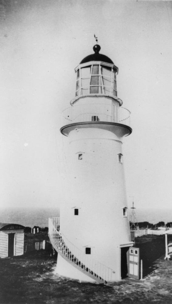 View of the Bustard Head Lighthouse in 1932 Bustard Head Light House is situated on the headland at the northern end of Bustard Bay and was first manned in 1868. The lighthouse was automated in 1986.